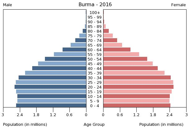 The population pyramid of Myanmar illustrates the age and sex structure of population and may provide insights about political and social stability, as well as economic development. The population is distributed along the horizontal axis, with males shown on the left and females on the right. The male and female populations are broken down into 5-year age groups represented as horizontal bars along the vertical axis, with the youngest age groups at the bottom and the oldest at the top. The shape of the population pyramid gradually evolves over time based on fertility, mortality, and international migration trends.